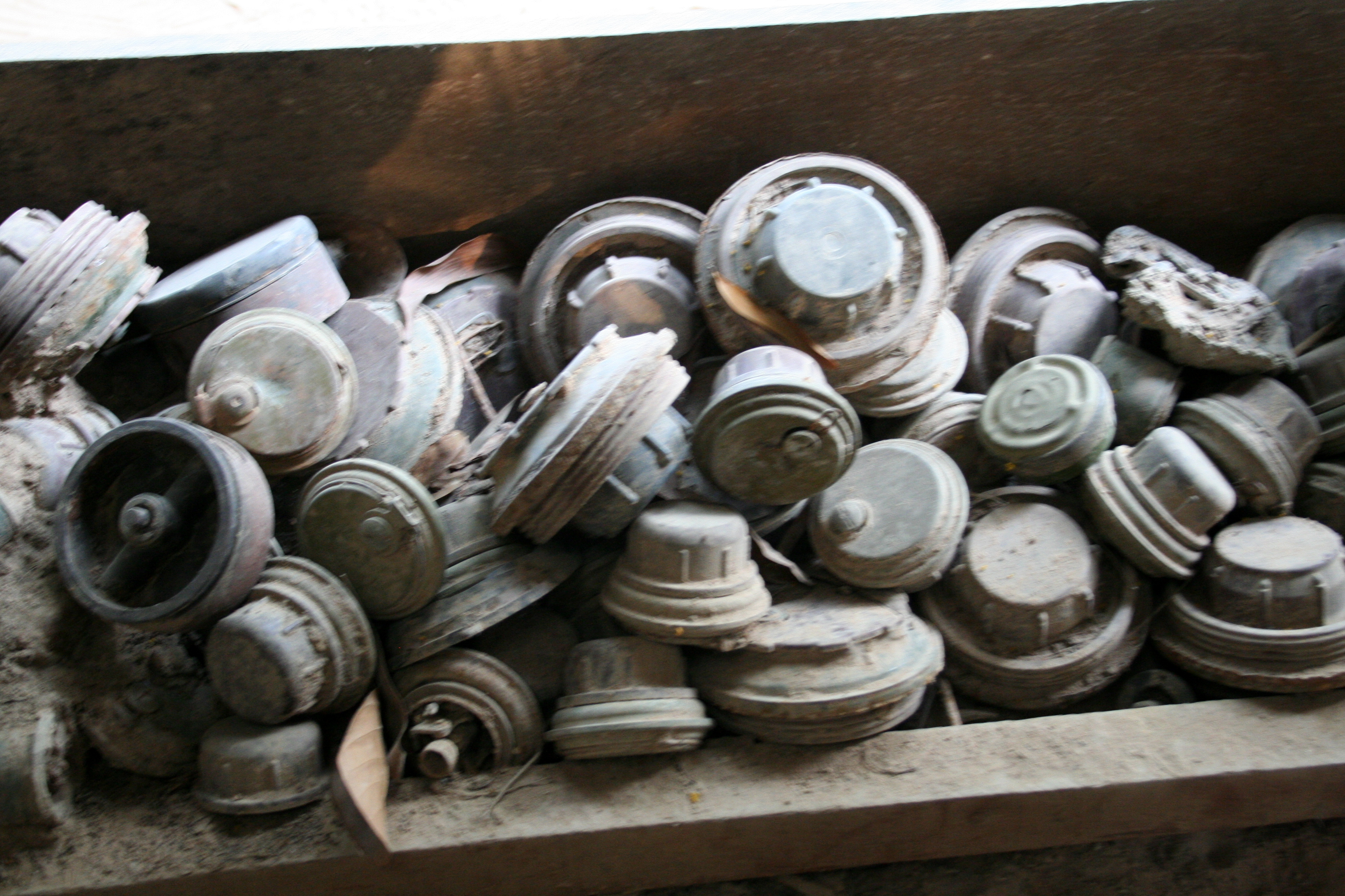 Pile of landmines at the War Museum in Seam Reap, Cambodia.